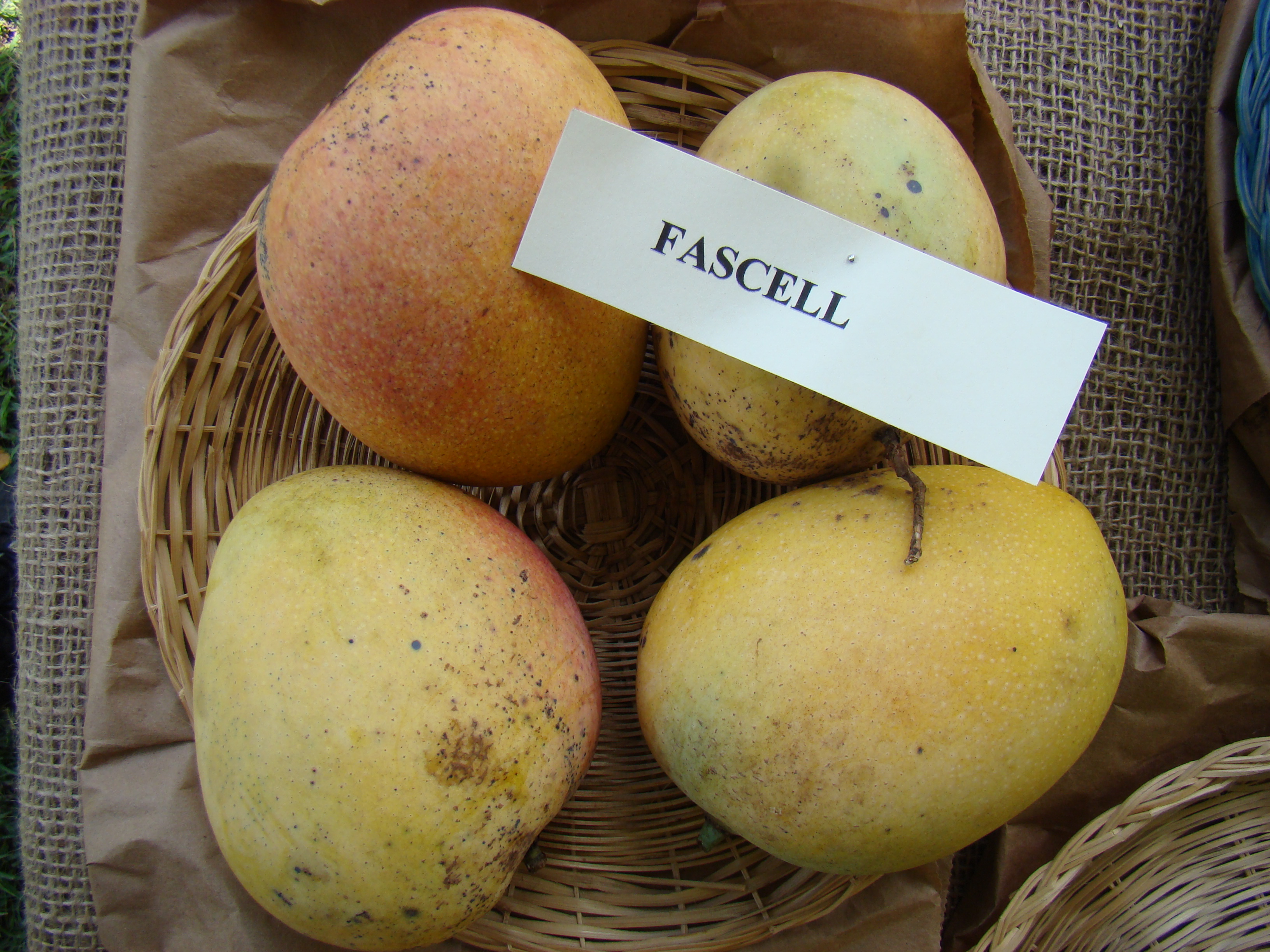 This is a photo of the display of Fascell mango at the Redland Summer Fruit Festival, Fruit & Spice Park, Homestead, Florida